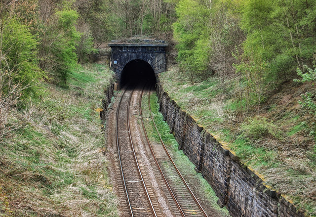 The south portal of the Bramhope Tunnel at grid reference SE24144077 in Bramhope, West Yorkshire, England. The rock, particularly at this end of the tunnel, proved difficult and expensive to blast during its construction in the 1850s. Flooding and subsidence also presented a constant threat - it has been estimated that in total some 1,563,480,000 gallons of water were pumped out of the workings during construction due to the gradient sloping downwards from this point as the tunnel snakes over two miles to the Arthington portal on the north side.